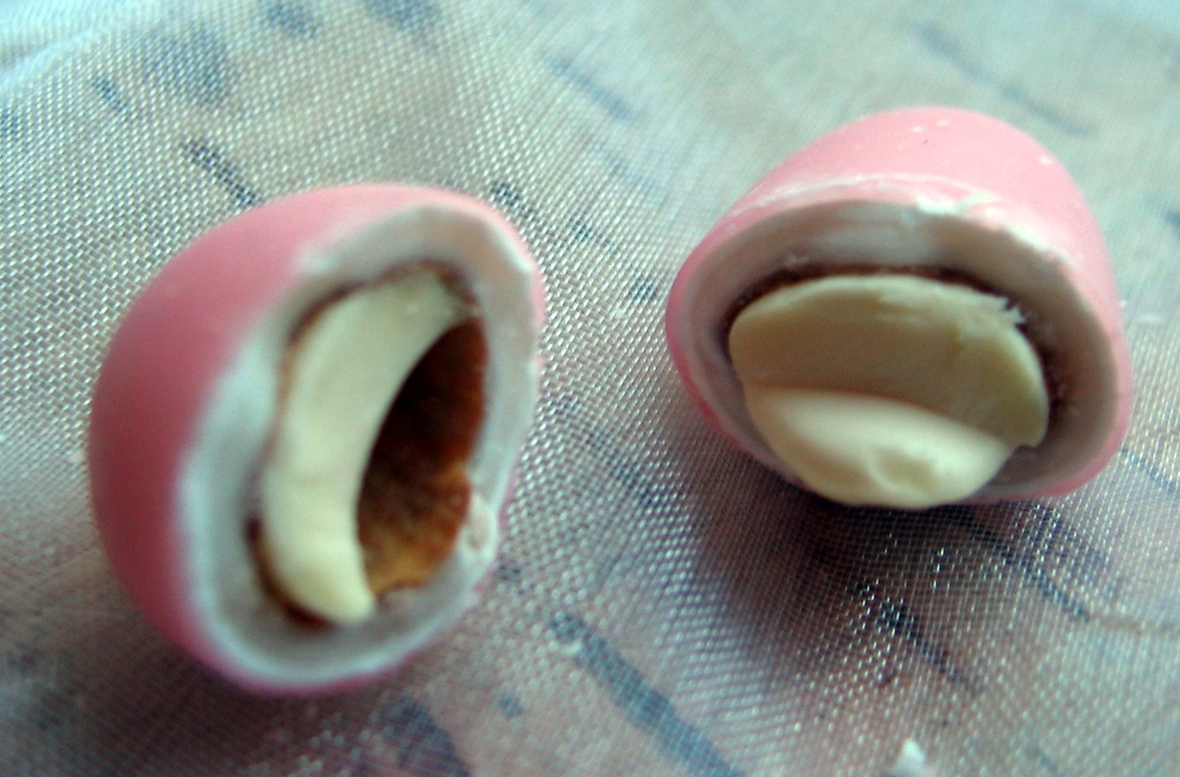 Split view of a dragée (confectionery).